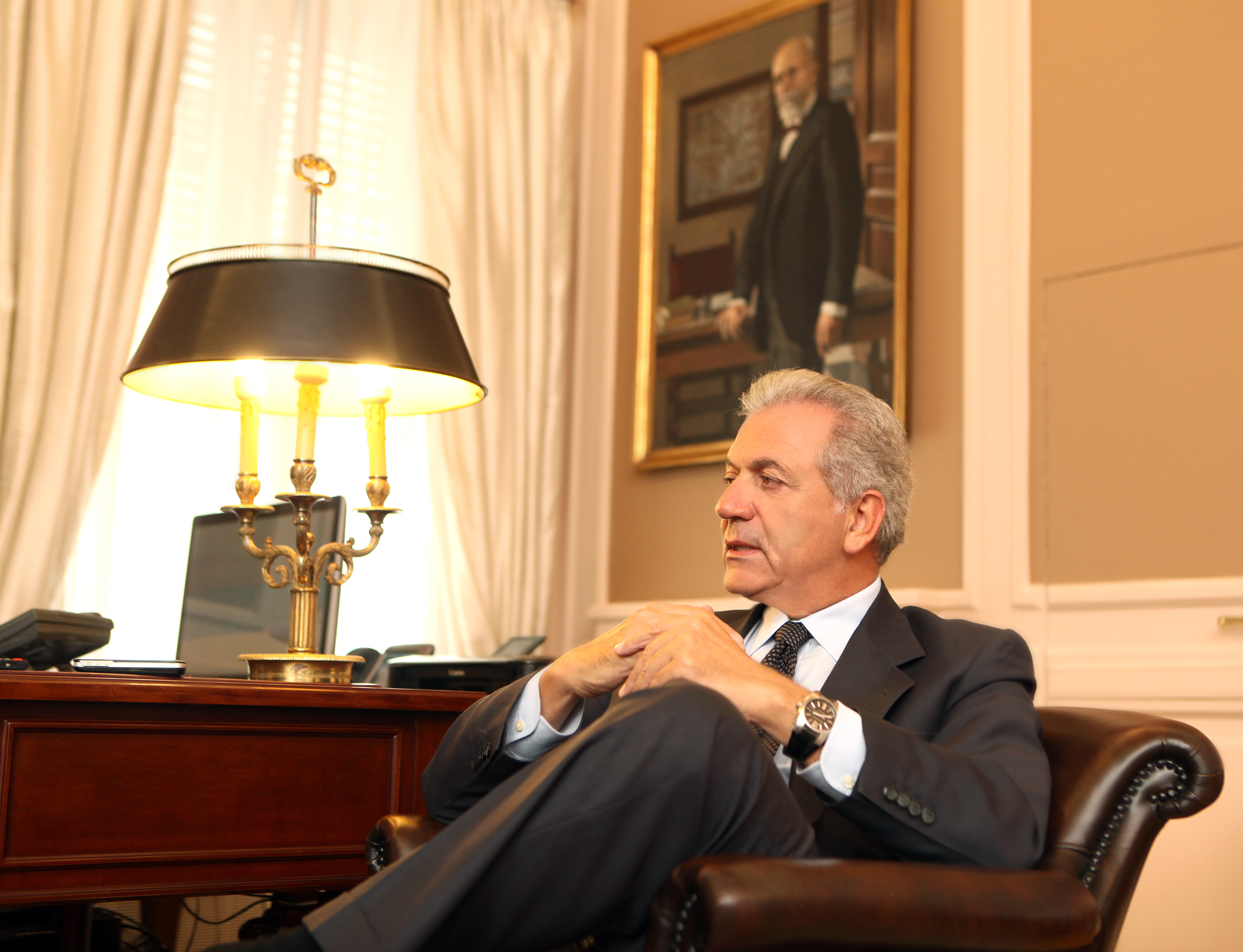 Mr Dimitris Avramopoulos during his tenure as Greek Minister of Foreign Affairs in 2012